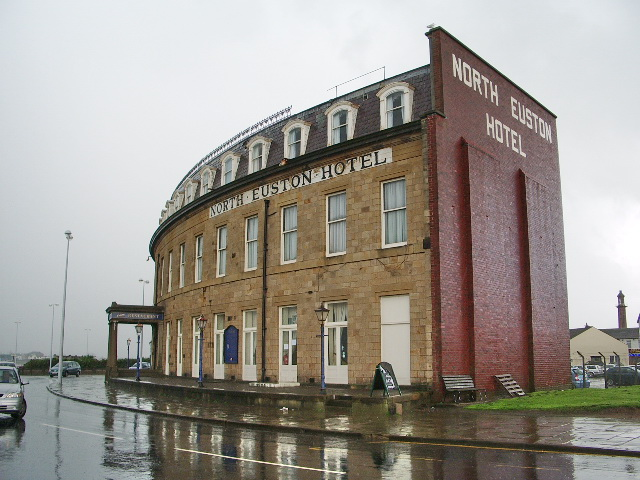 North Euston Hotel, Fleetwood Designed by Sir Decimus Burton and opened in 1841.